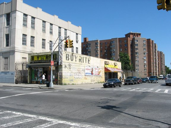 Looking northeast towards the Riverdale Towers, an NYCHA apartment complex in the Brownsville section of Brooklyn, New York City, as seen from the southwest corner of the intersection of Riverdale and Rockaway Avenue, with a local liquor store and a New York Telephone (now Verizon) Exchange building on the northeast corner.